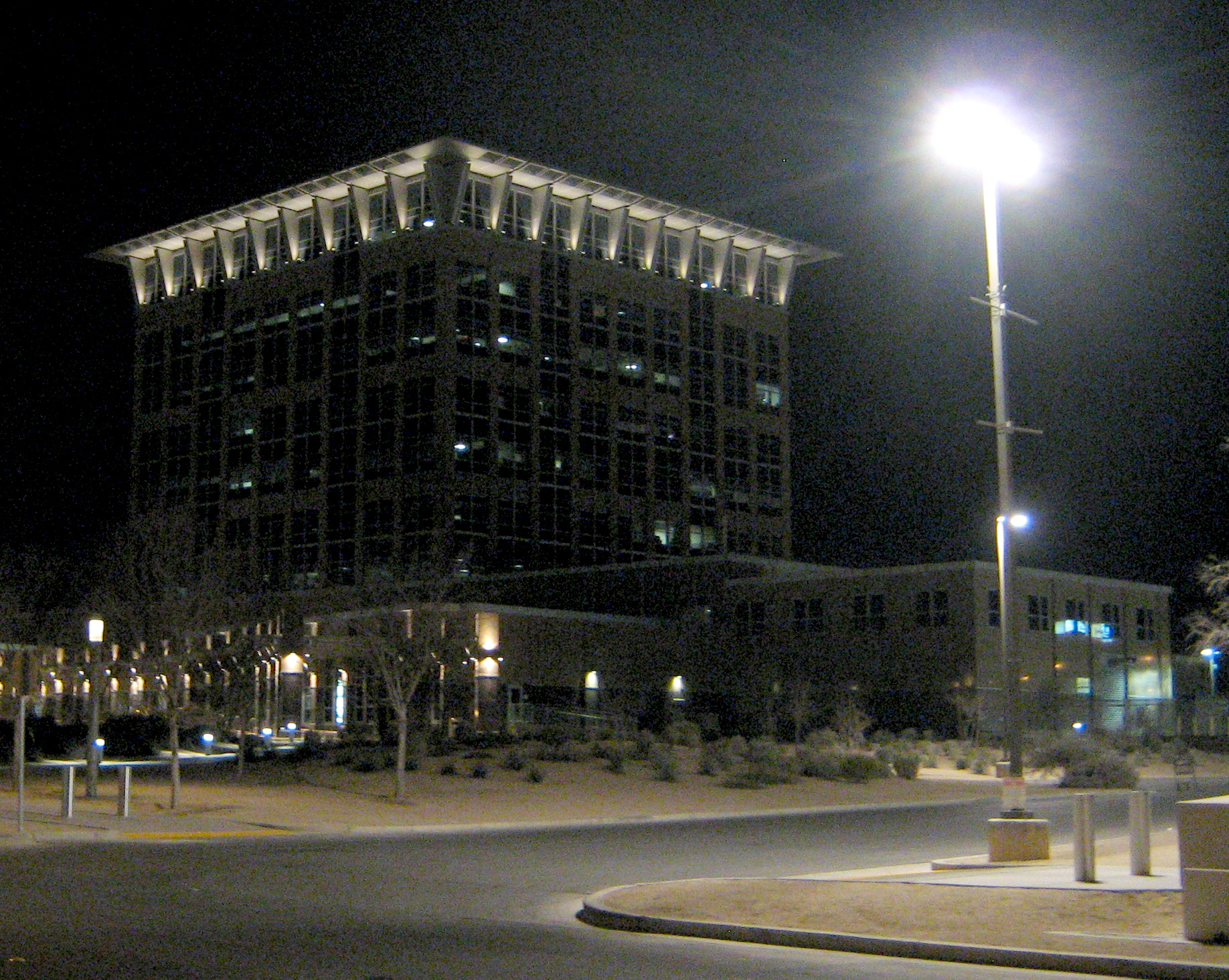 North Las Vegas city hall at night, completed in 2011 at a cost $130 million.